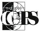 Logo of Charlotte County Public Schools (1998)